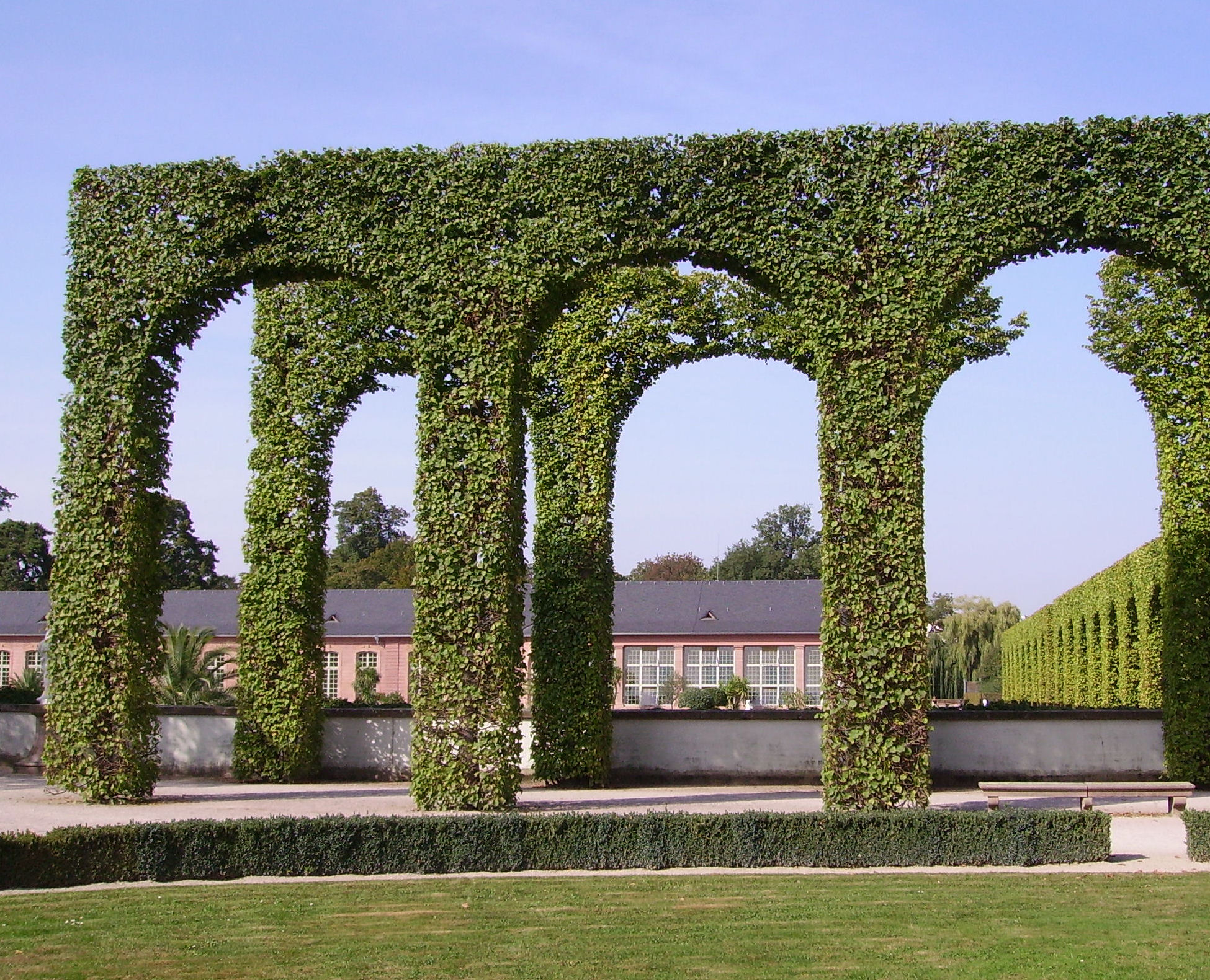 Buchen im Französischen Garten des Schwetzinger Schlossgartens